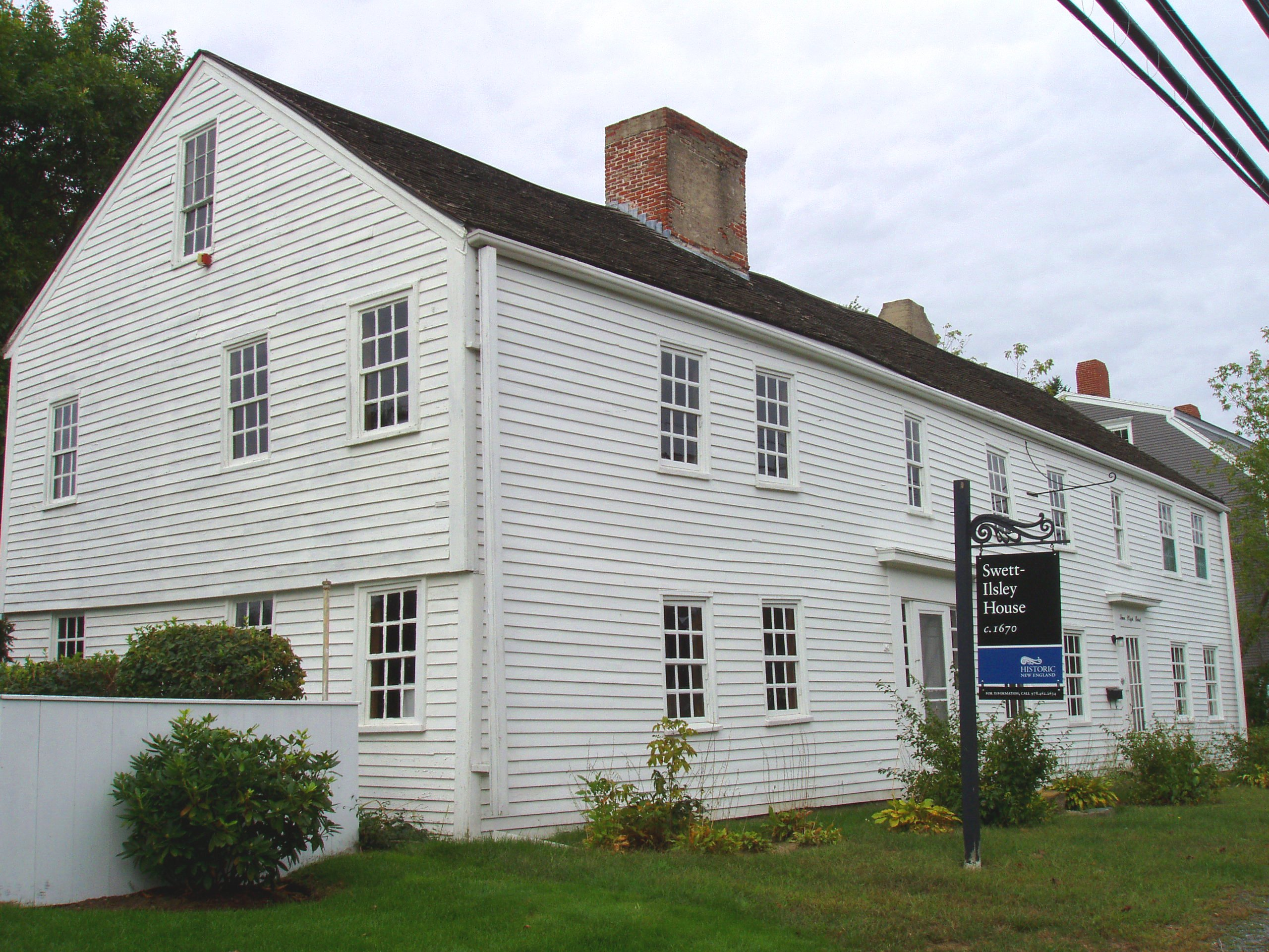 Swett-Ilsley House - Newbury, Massachusetts. View from the High Road. Photograph taken by me, September 2005.